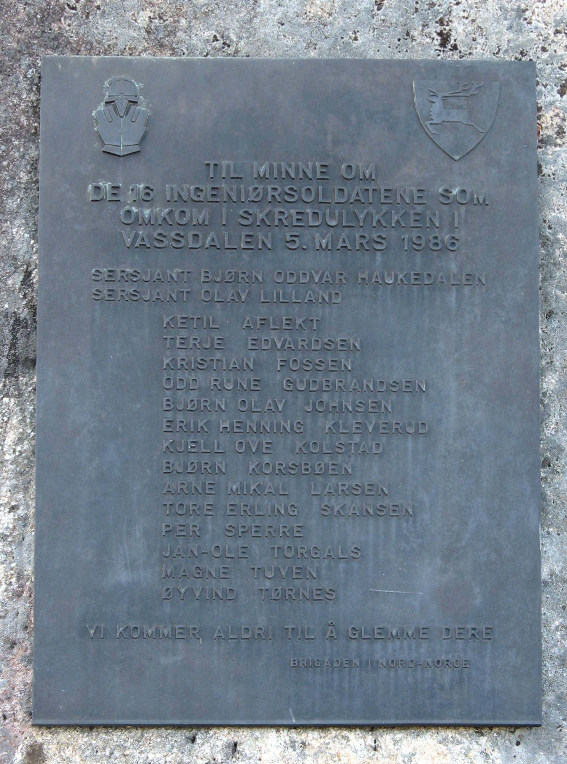 Memorial plate for the soldiers who died at the Vassdal avalanche in 1986